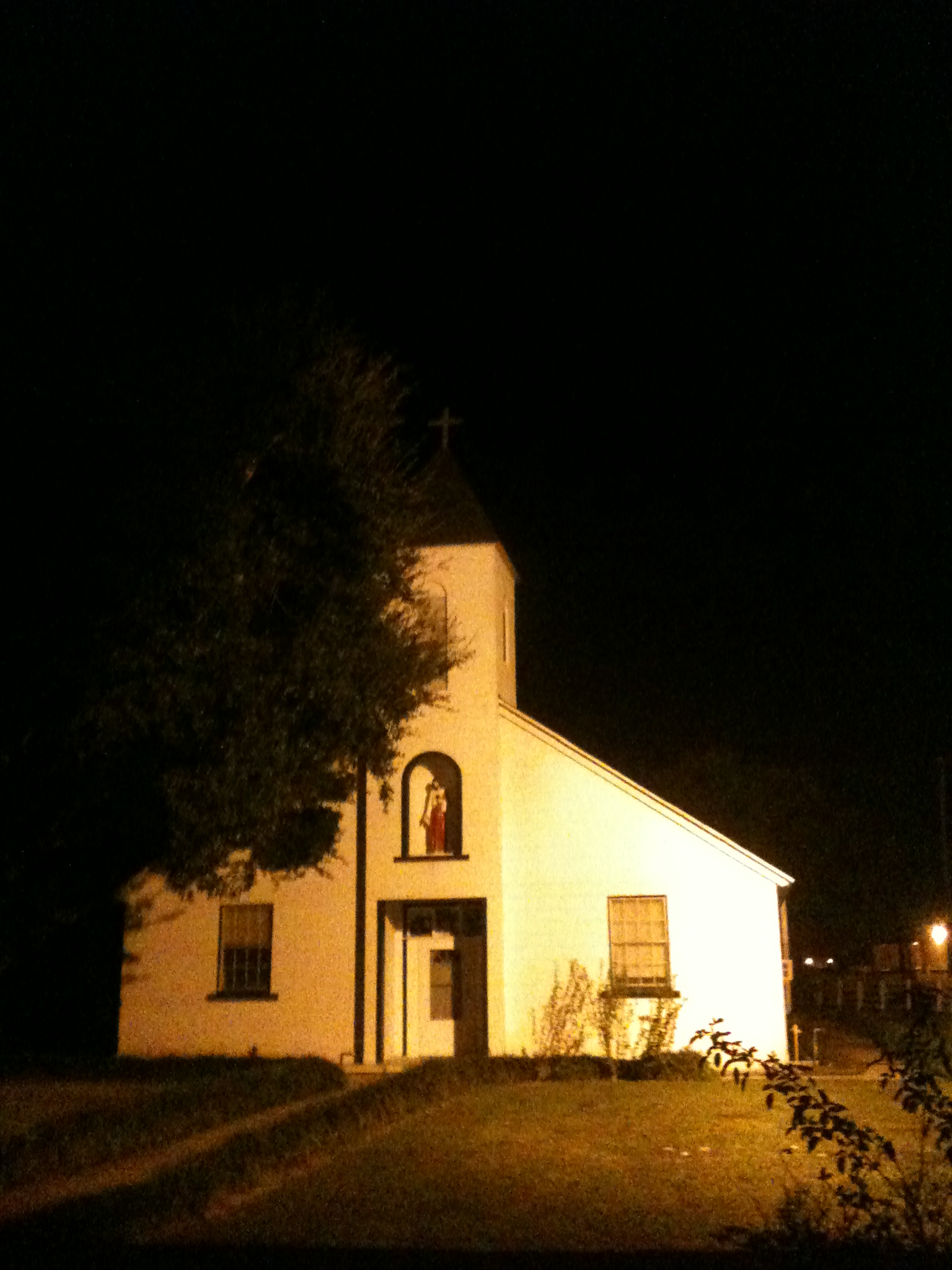 St. Augustine Church at night